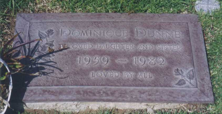 Gravestone of Dominique Dunne.